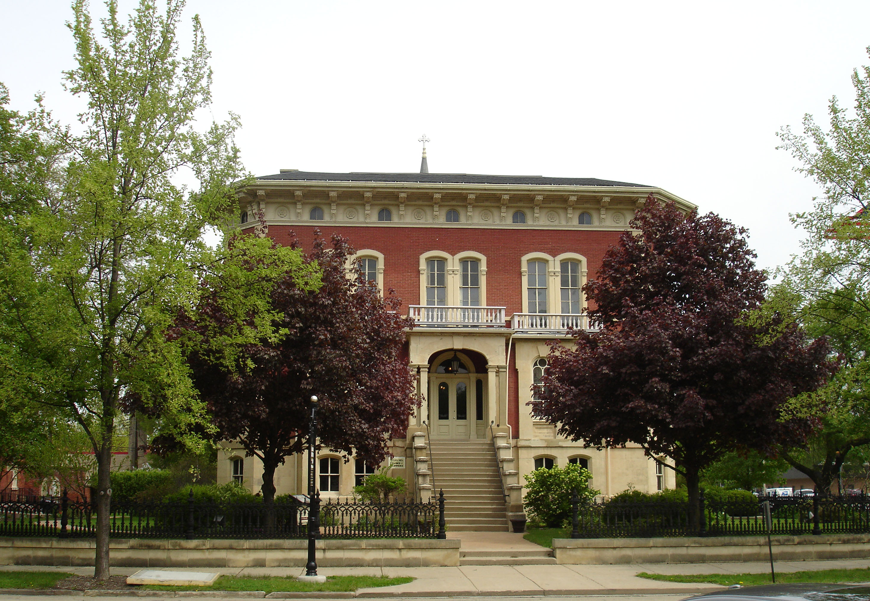 Reddick Mansion (Reddick's Library) in Ottawa, Illinois, USA, part of the Washington Park Historic District, U.S. National Register of Historic Places.